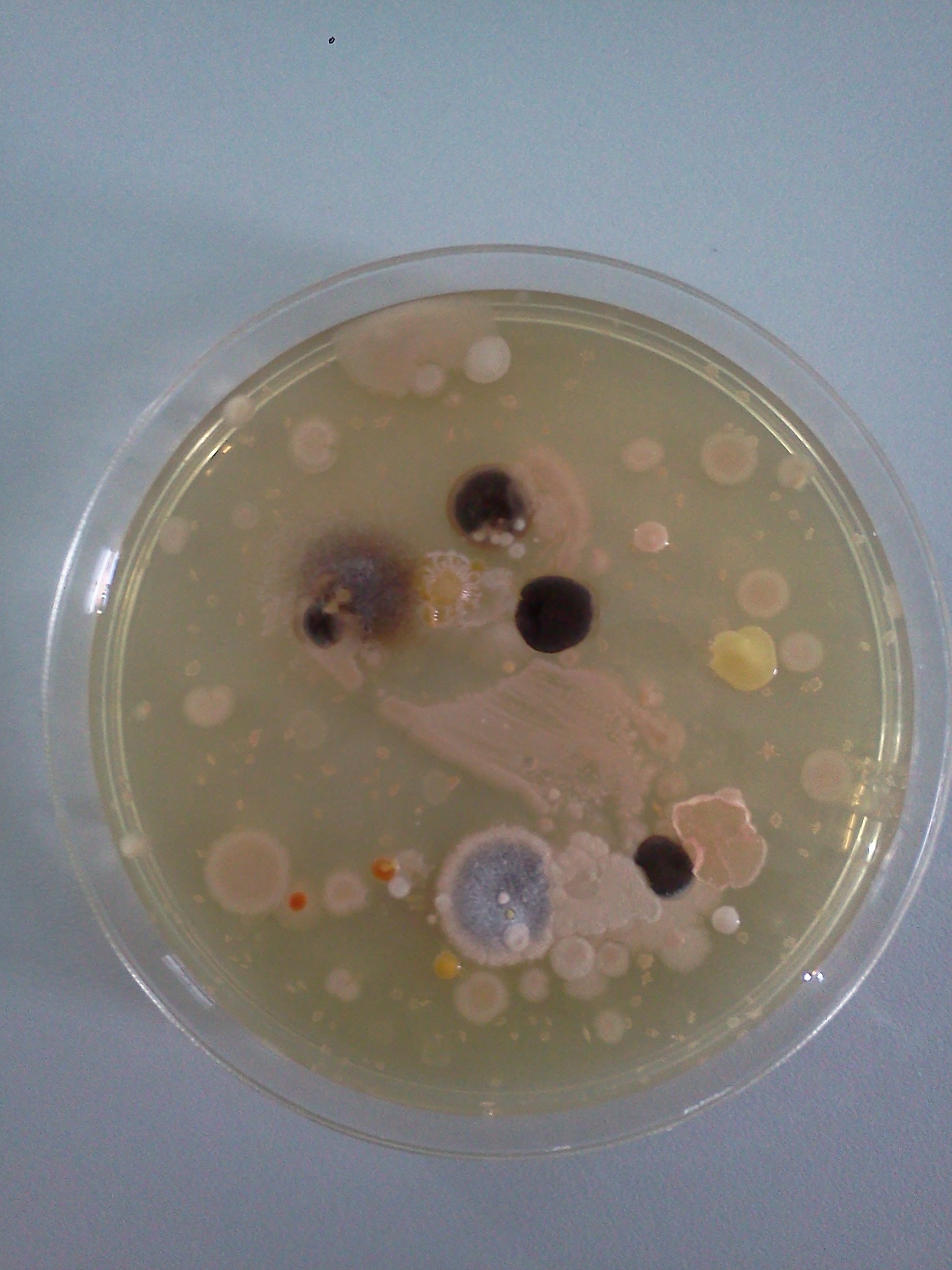 microbe colonies